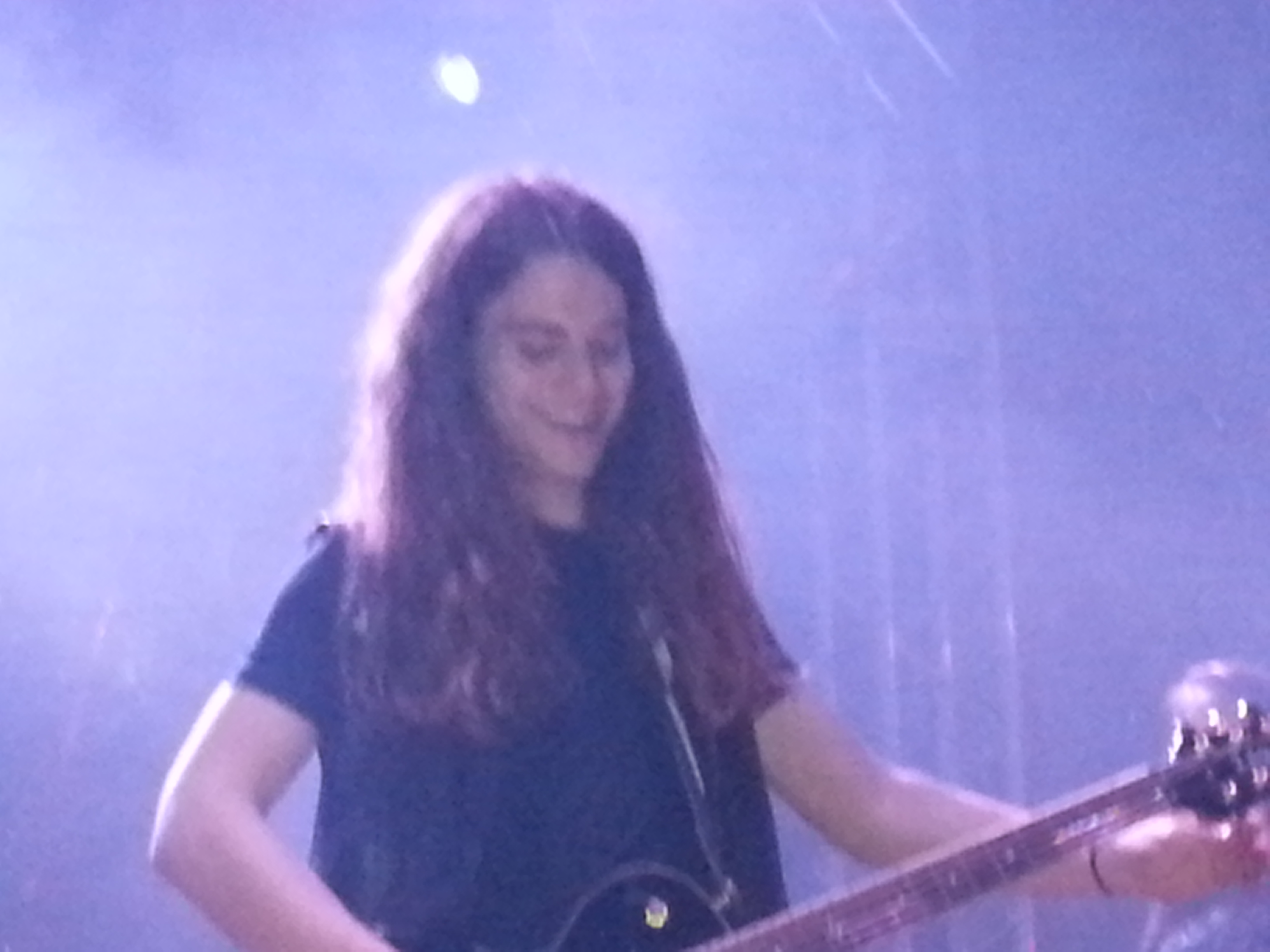 Cord Pool of Texas Hippie Coalition